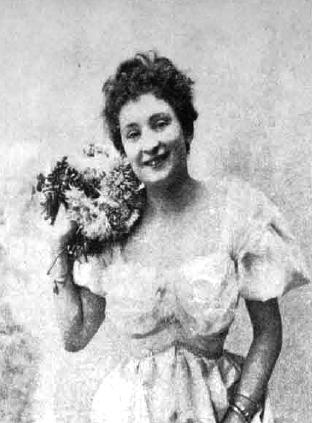 Zofija Borštnik (1868-1948), Slovene actress